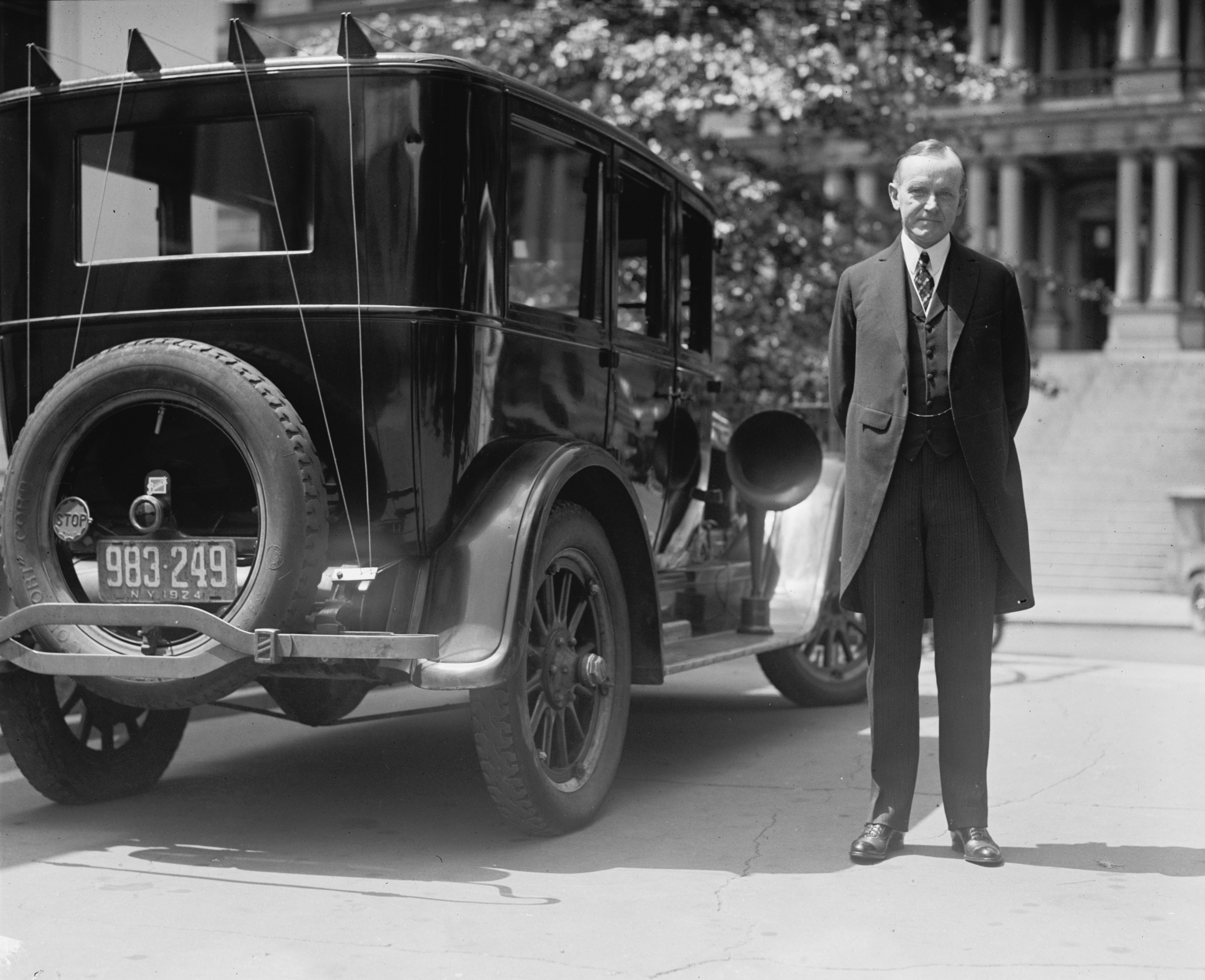 U.S. President Calvin Coolidge standing beside his automobile equipped with radio equipment. Note aerial wires on back of car and loud-speaker on the running board. The auto is a Buick Sedan. See [ for discussion with details not mentioned in LOC description.